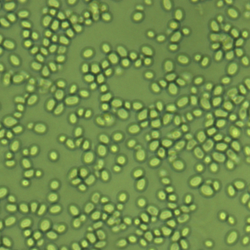 Billy J. Carver, Candida glabrata -- 1600x.